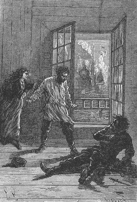 An illustration from the novel "Michael Strogoff: The Courier of the Czar" by Jules Verne drawn by Jules Férat.